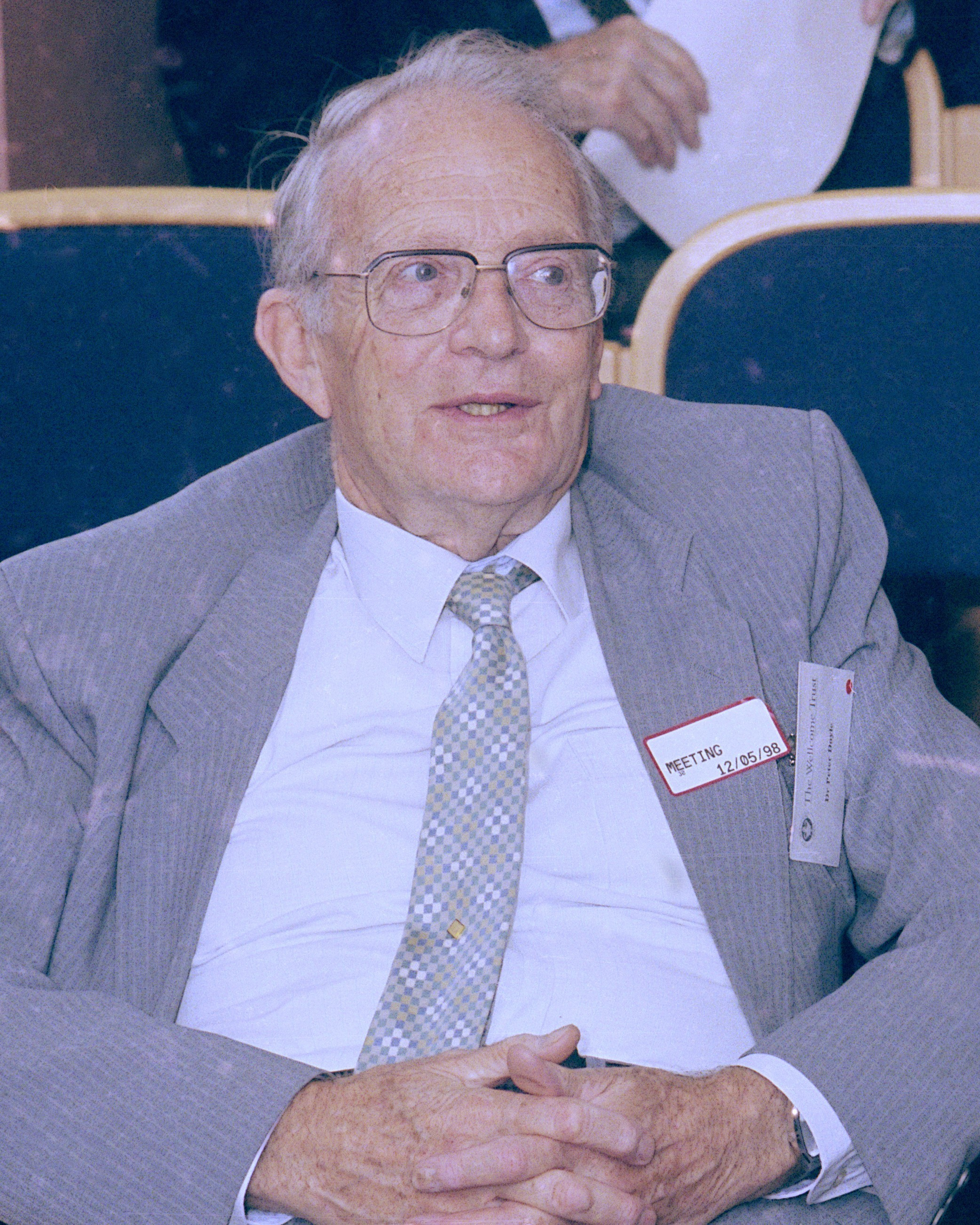 Taken at the Witness Seminar “Post penicillin antibiotics” held by the History of Twentieth Century Medicine Group.